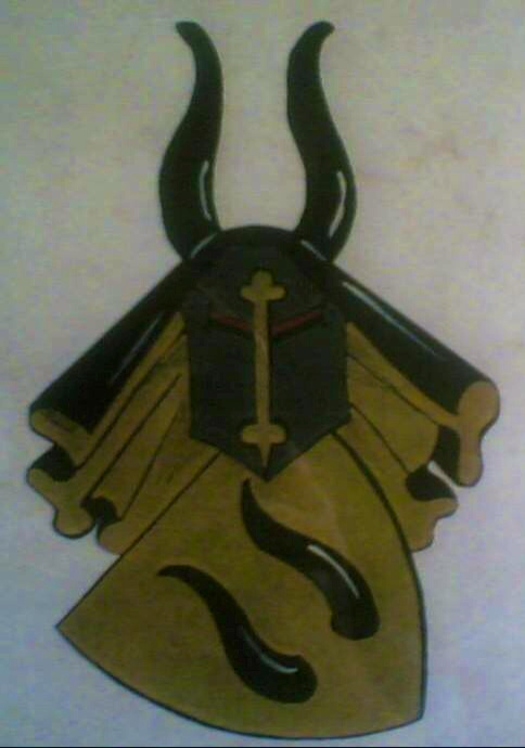 Wappen der Pivec v. H. u. K.